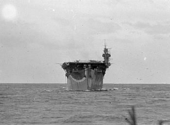 The Royal Navy escort carrier HMS Dasher (D37) at sea during northern convoy duty.